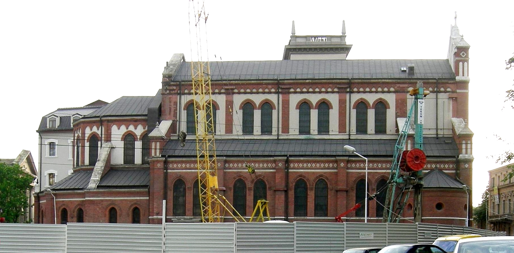 St. Joseph Cathedral (Roman Catholic), Bucharest, Romania. Note construction site in foreground. This view will soon be obliterated by a skyscraper.